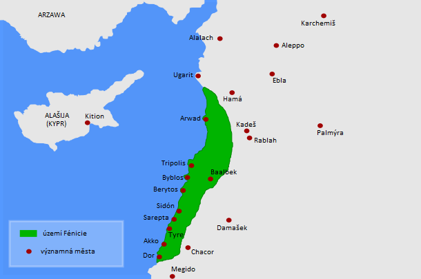 Map of Phoenicia